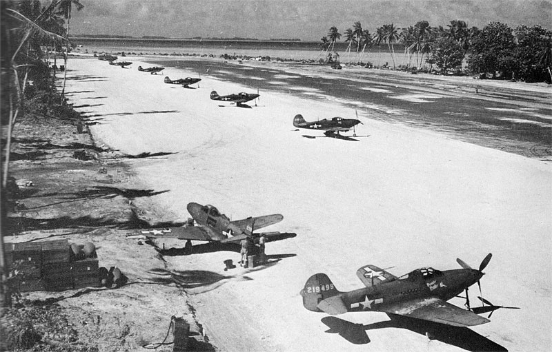 USAAF P-39Q Airacobra fighters of the 46th Fighter Squadron, 15th Fighter Group, on Makin Island in the Gilberts in December 1943, just weeks after U.S. Army forces had seized the island. The first aircraft visble is the P-39Q-1-BE s/n 42-19499.